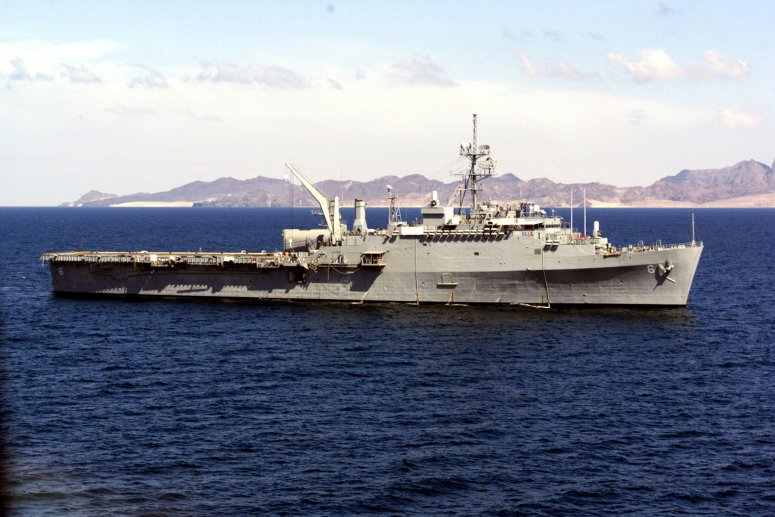 USS Duluth (LPD-6) conducts operations off the coast of Aden, Yemen, 29 January 2000. US Navy photo # 001029-M-0557M-004 by PH1 David Miller.